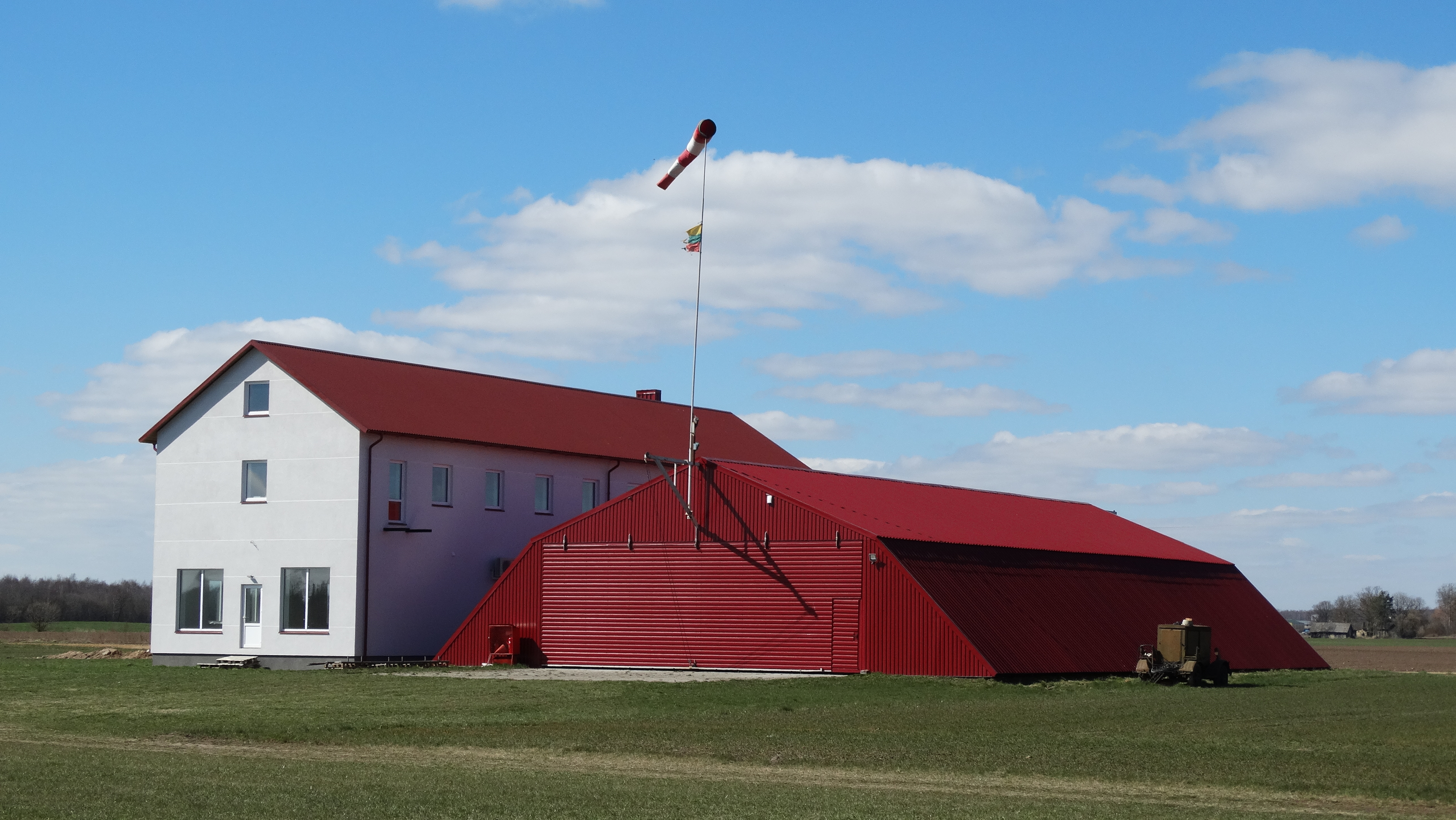 Hangar for ultralight aircraft, landing field, Rokoniai, Radviliškis District, Lithuania